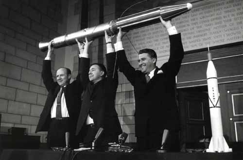 The creators of Explorer 1 holding a model of it on the press conference at launch day (or the day before), February 1, 1958 (or January 31, 1958). Starting from left side: Ph.D. William Pickering, Ph.D. James Van Allen, Ph.D. Wernher von Braun. Pickering, Van Allen, Von Braun holding up Explorer 1 model at news conference (NASA photo) Jet Propulsion Laboratory Director Dr. James Pickering, Dr. James van Allen of the State University of Iowa, and Army Ballistic missionile Agency Technical Director Dr. Wernher von Braun triumphantly display a model of the Explorer I, America's first satellite, shortly after the satellite's launch on January 31, 1958. The Jet Propulsion Laboratory packed and tested the payload, a radiation detection experiment designed by Dr. van Allen. Dr. von Braun's rocket team at Redstone Arsenal in Huntsville, Alabama, developed the Juno I launch vehicle, a modified Jupiter-C.